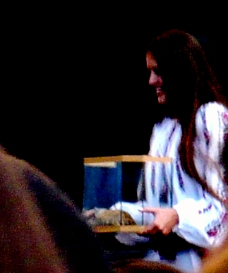 Turtle "Alma" is a living symbol of Kyiv-Mohyla Academy